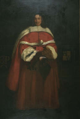 Sir Hugh Wyndham, (1602-1684), of Silton, Dorset, dressed as Judge of Fire Court, following Great Fire of London. Image digitally corrected by (Lobsterthermidor (talk) 15:54, 9 February 2012 (UTC)) to remove overlaid modern logo.